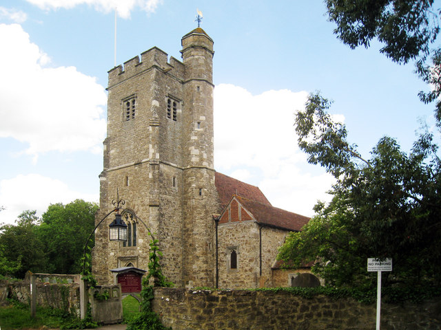 St Martin's parish church, Ryarsh, Kent, seen from the southwest